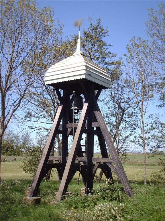 wooden bell tower in Indijk, Friesland, Netherlands